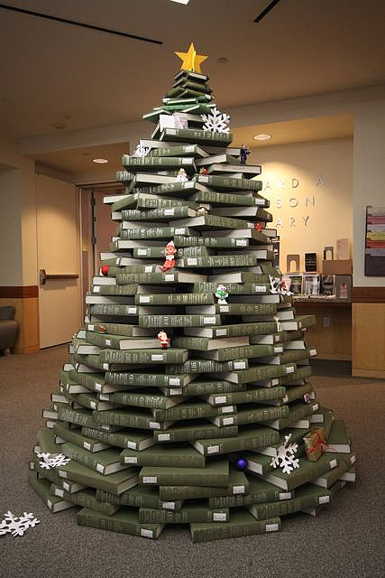 A Christmas tree made from the National Union Catalog. The tree was built at the Gleeson Library, the University of San Francisco, CA USA.